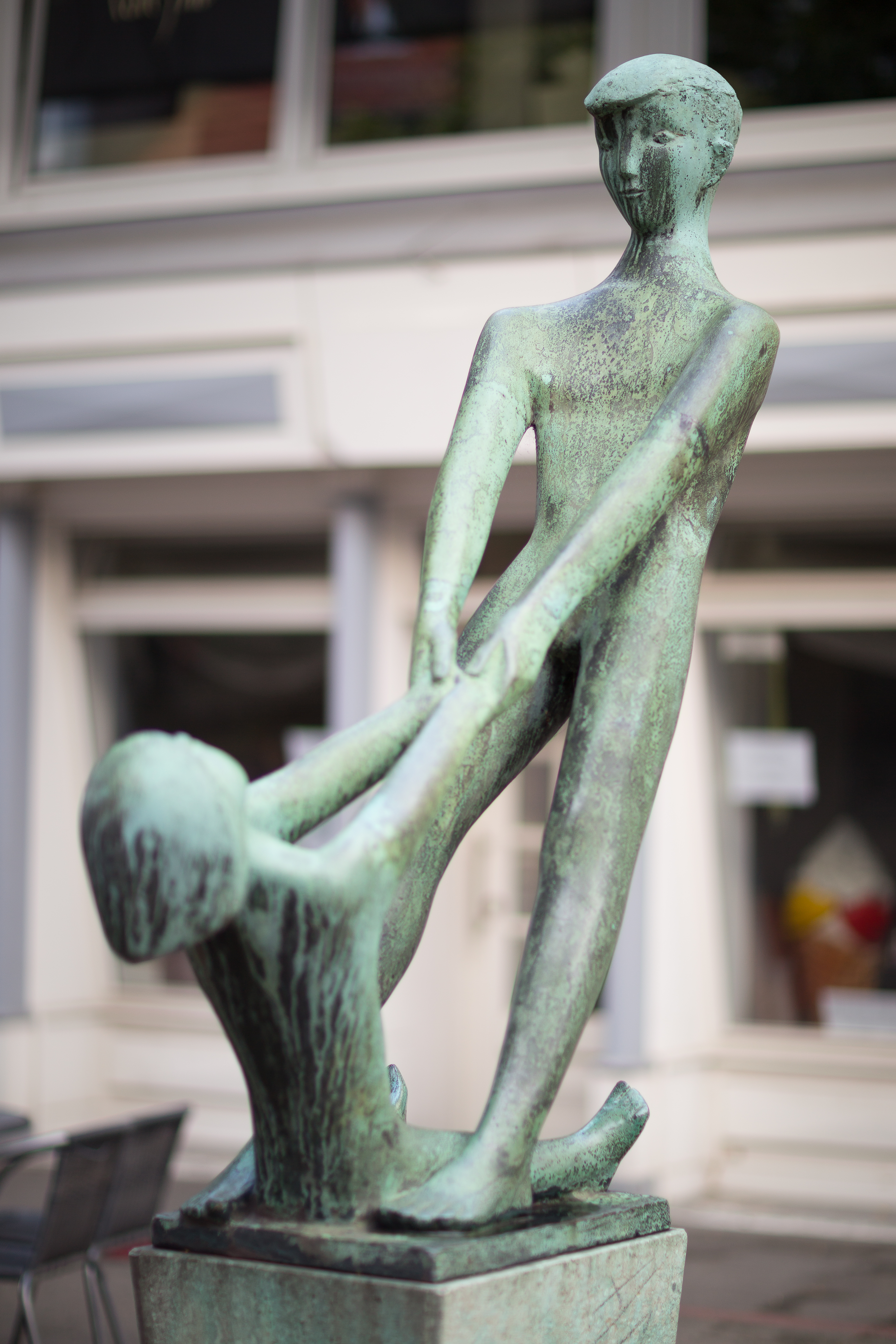 Sculpture "Spielende Kinder" (= playing children) by Kurt Lehmann (1905 - 2000) at Grupenstrasse in Hanover, Germany.